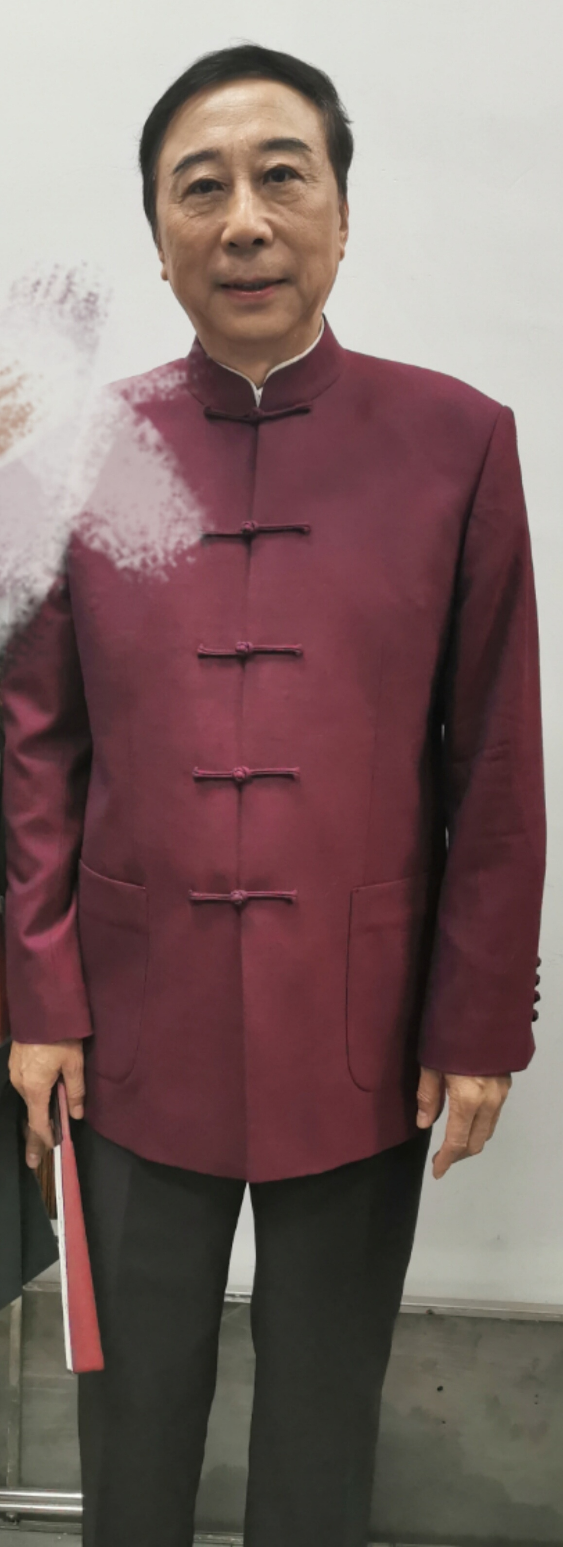 Feng Gong in Shenzhen, Guangdong, China, in December 2019.